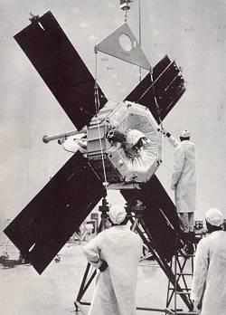 Mariner 4.